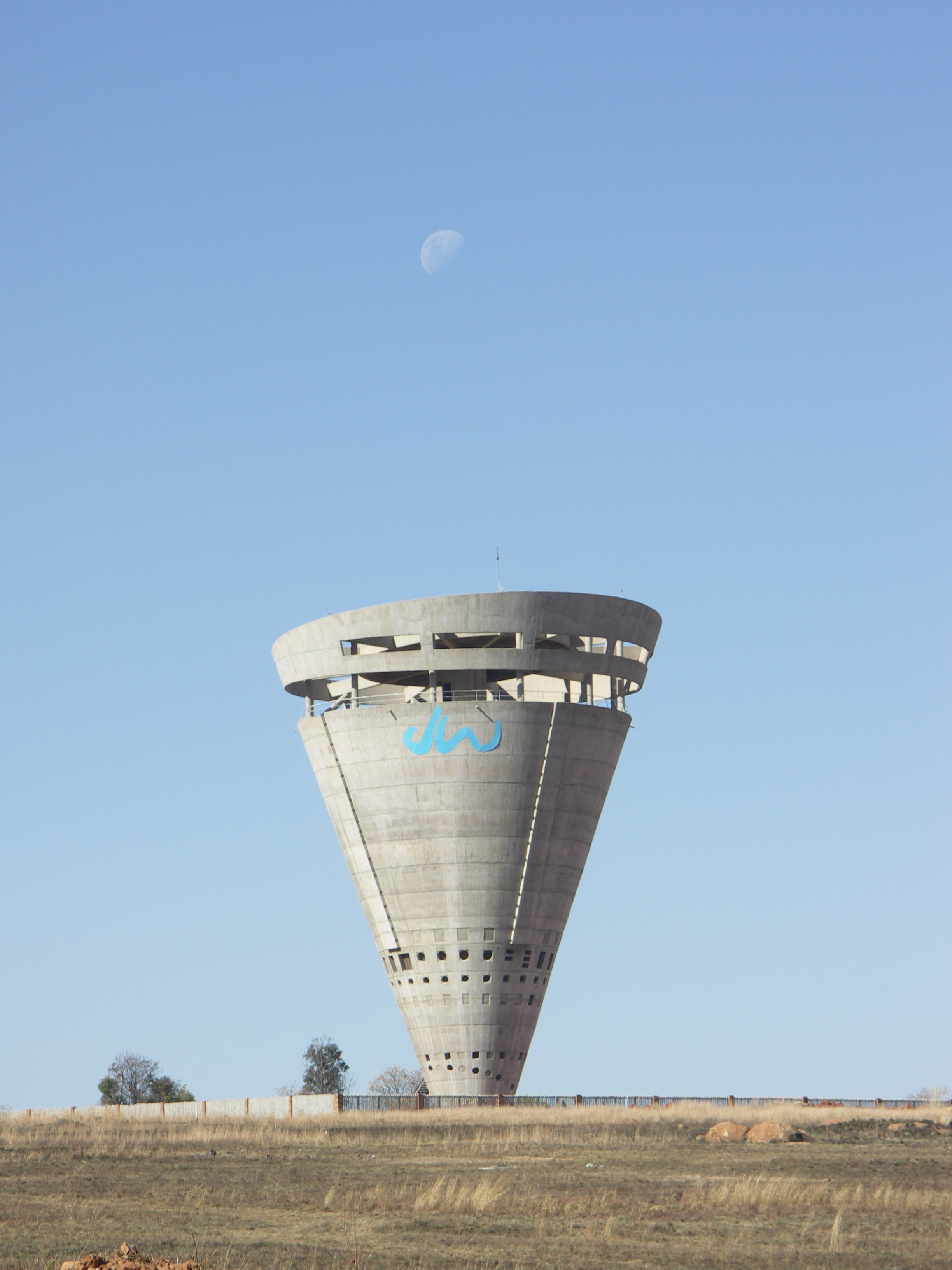 One of the most notable features of Midrand, Johannesburg, the Joburg Water water tower next to Grand central airport. Don't be deceived by the open spaces in front of it, by 2008-12-01 Gautrain tracks were being laid down there for the Sandton/Pretoria link.